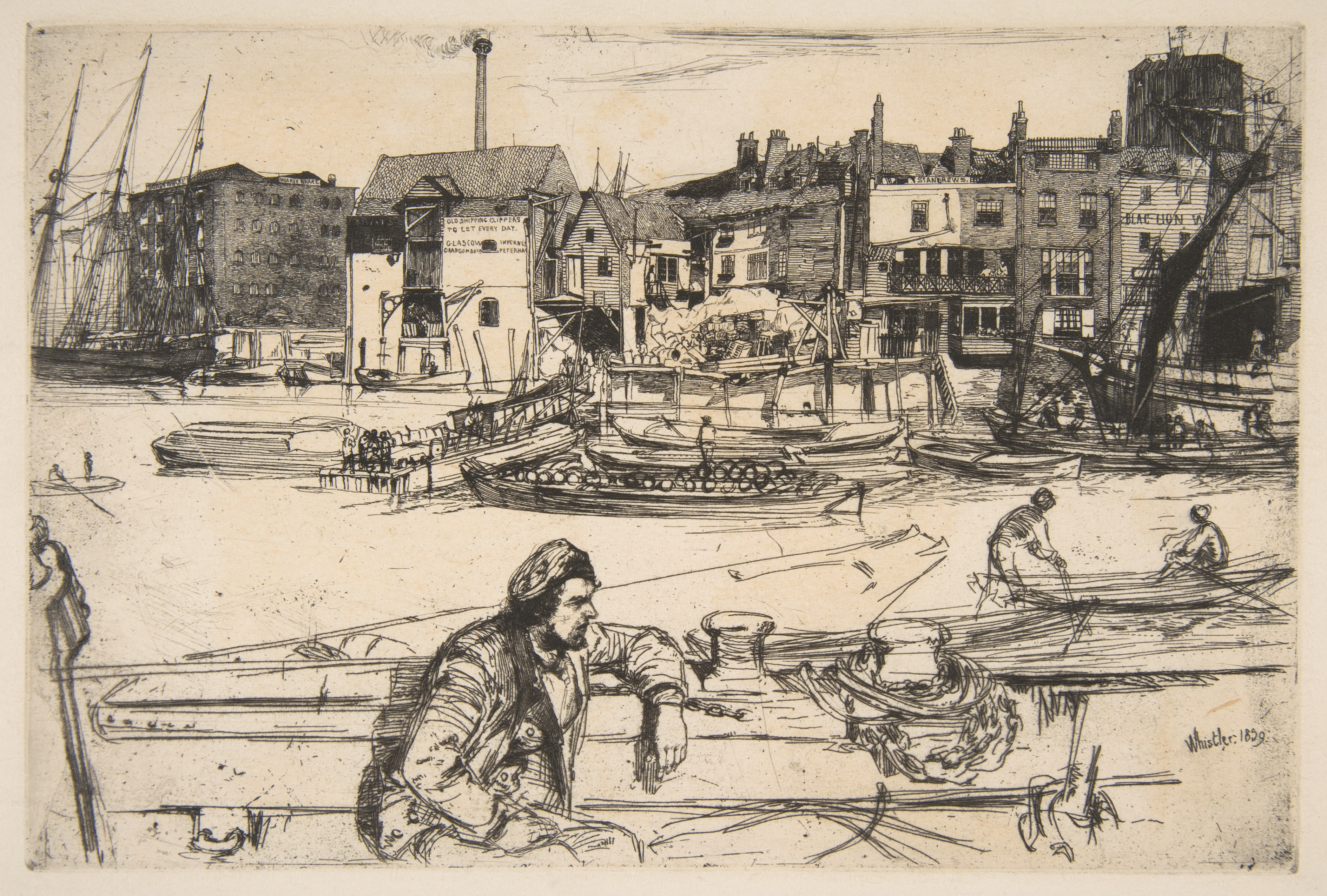 Print; Prints